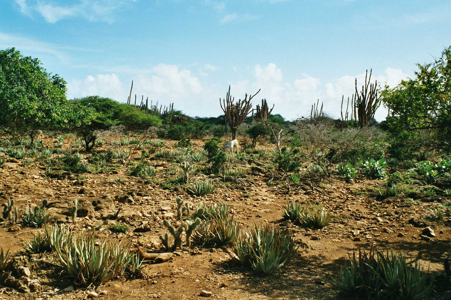 Knuku or Bush on Bonaire, Netherlands Antilles. Photo by V.C.Vulto